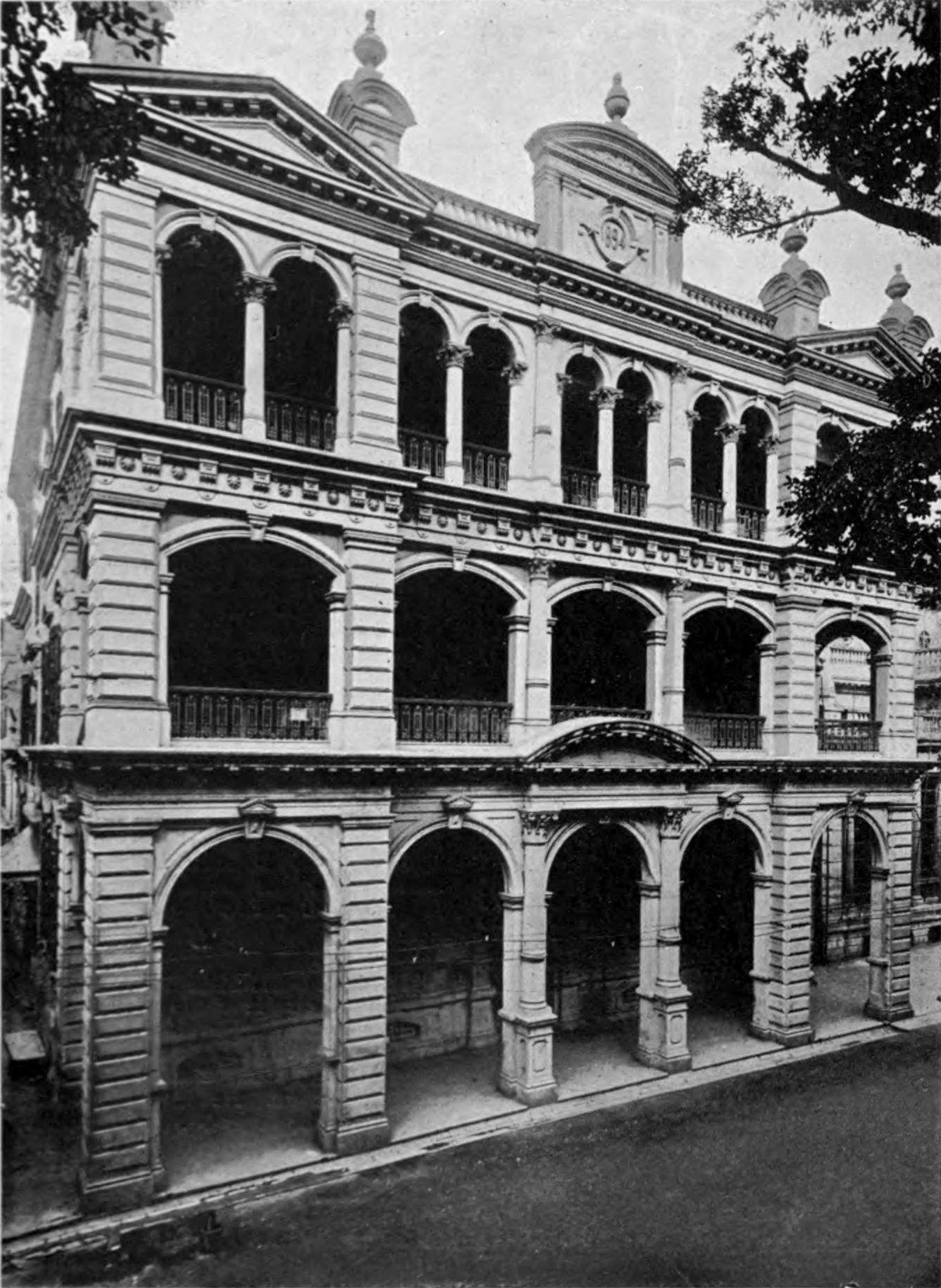 Charter Bank of India Australia and China in Hong Kong